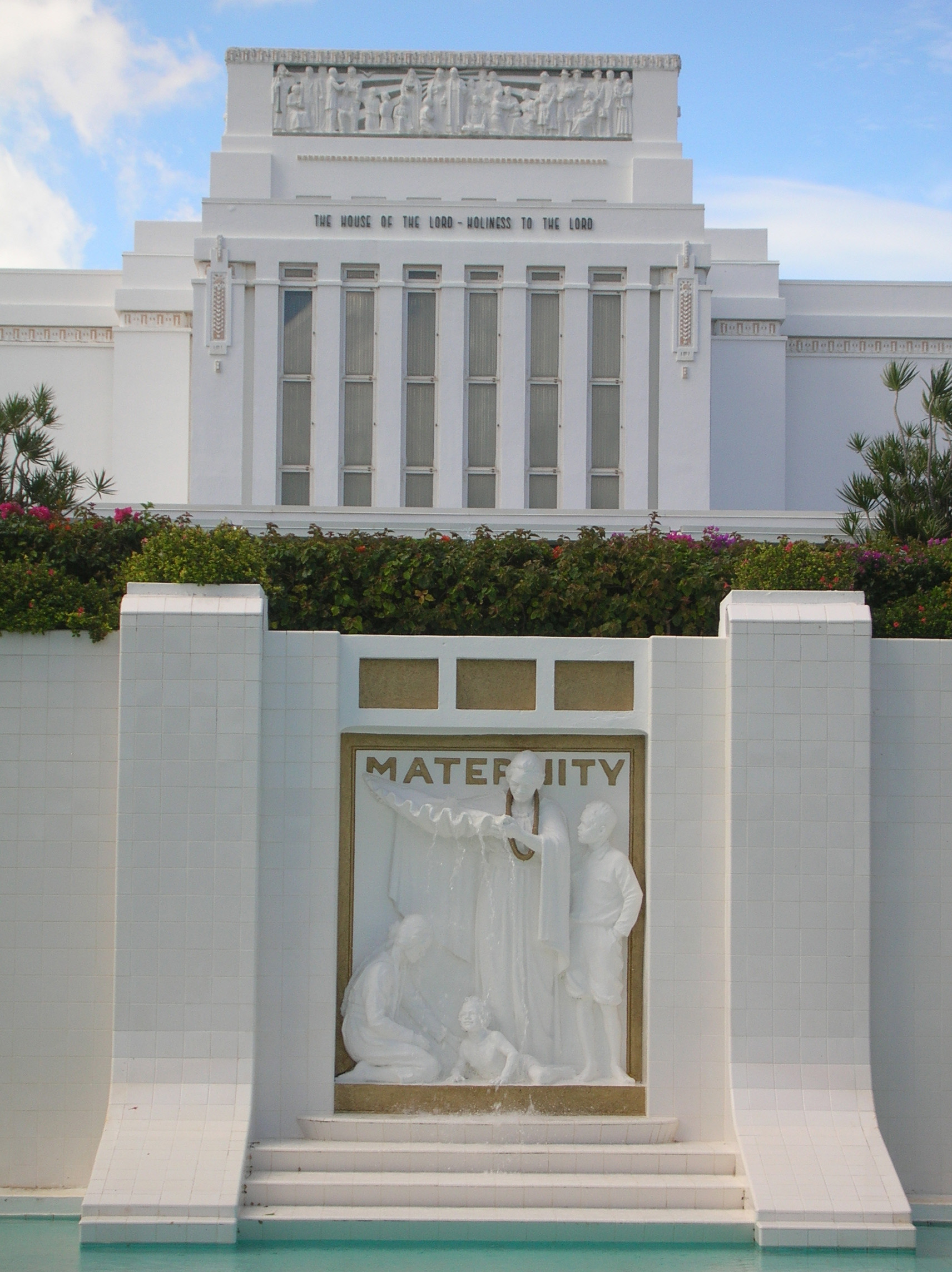 The Laie Hawaii Temple maternity fountain — in Lā'ie, Hawai'i. Photographer: myself, Gh5046 Taken 2005/01/16 Other than a possible "auto levels" being done, this photo is in its original state. Summary Laie Hawaii Temple (formerly the Hawaiian Temple) is the fifth oldest temple of The Church of Jesus Christ of Latter-day Saints still in operation. It is also the oldest temple still operating that was built outside of the state of Utah. Located in the town of Lāie, thirty-five miles from Honolulu on the island of Oʻahu, the site of the temple was dedicated by Church President Joseph F. Smith on June 1, 1915. The temple was known as the "Hawaii Temple" until a standard naming convention for temples was adopted in the early 2000s.